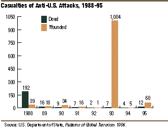 Casualties of anti-U.S. attacks, 1988–95.